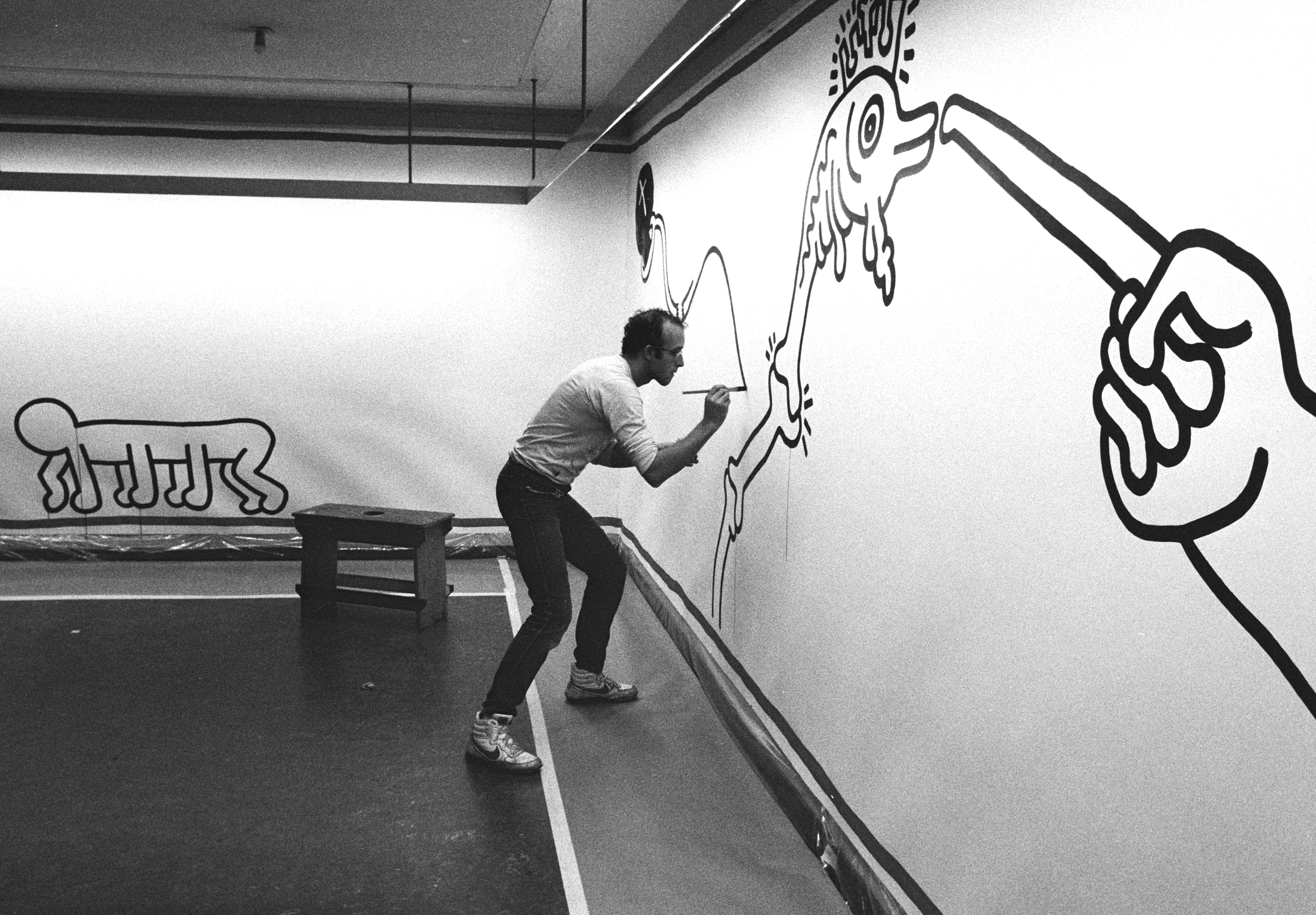 Keith Haring at work in the Stedelijk Museum in Amsterdam